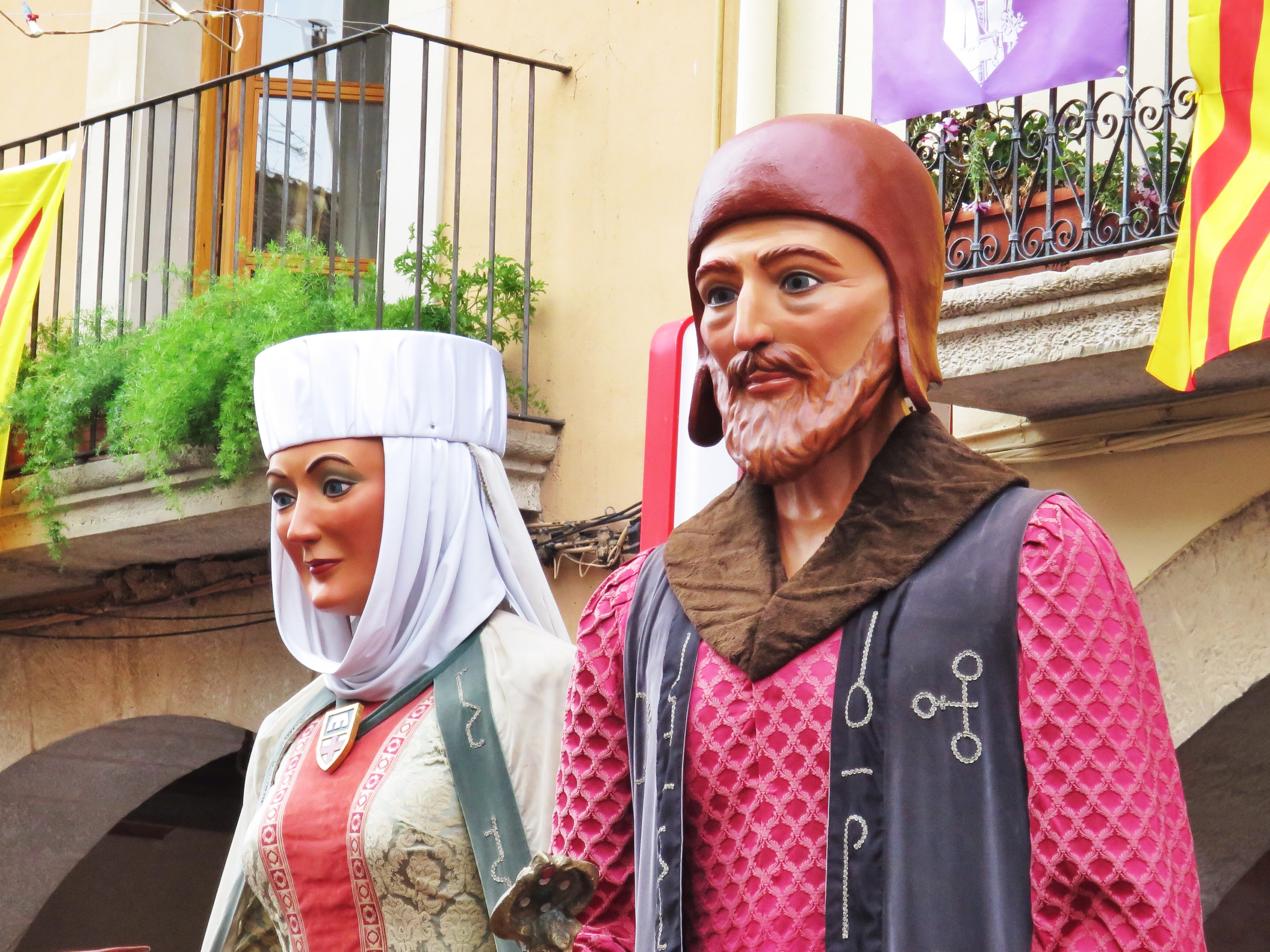 The Giants usually parade as couples, man and woman who depict archetypes of the town they represent, such as peasant, bourgeois or king and queen, demon and angel, nobles... They are several meters tall; the head and hands are made of papier maché while the body is covered in cloth. Inside, a hidden structure let one person carry the giant upon its shoulders, walk and swing to the beat of a local marching band.